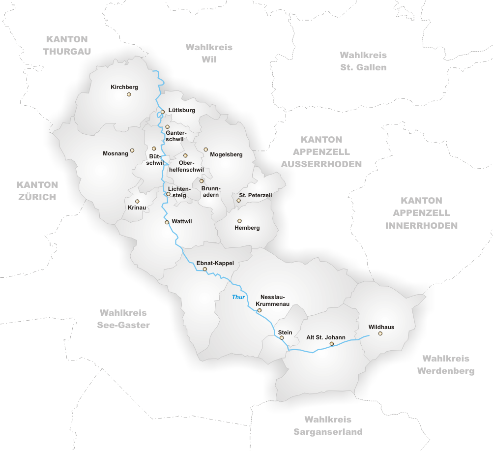 Municipalities of District Toggenburg